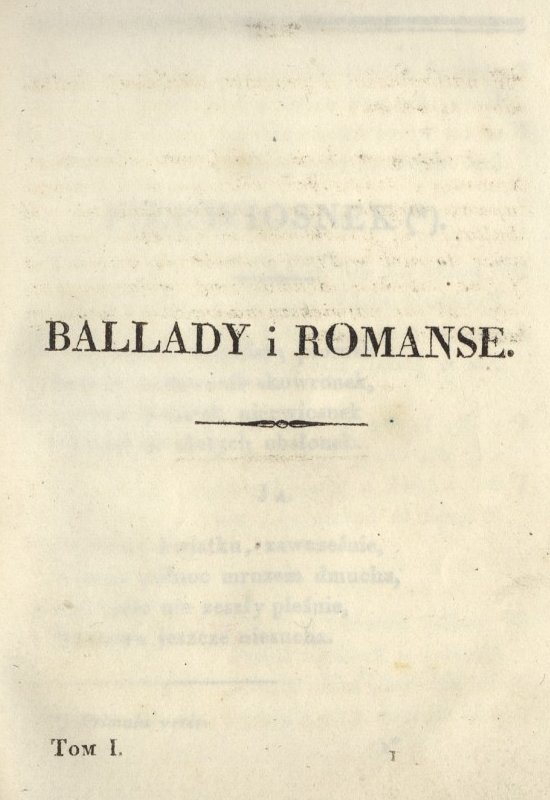 Poems by Adam Mickiewicz. V. 1. - Vilnius; printed by Józef Zawadzki, 1822; Adam Mickiewicz (1798-1855)